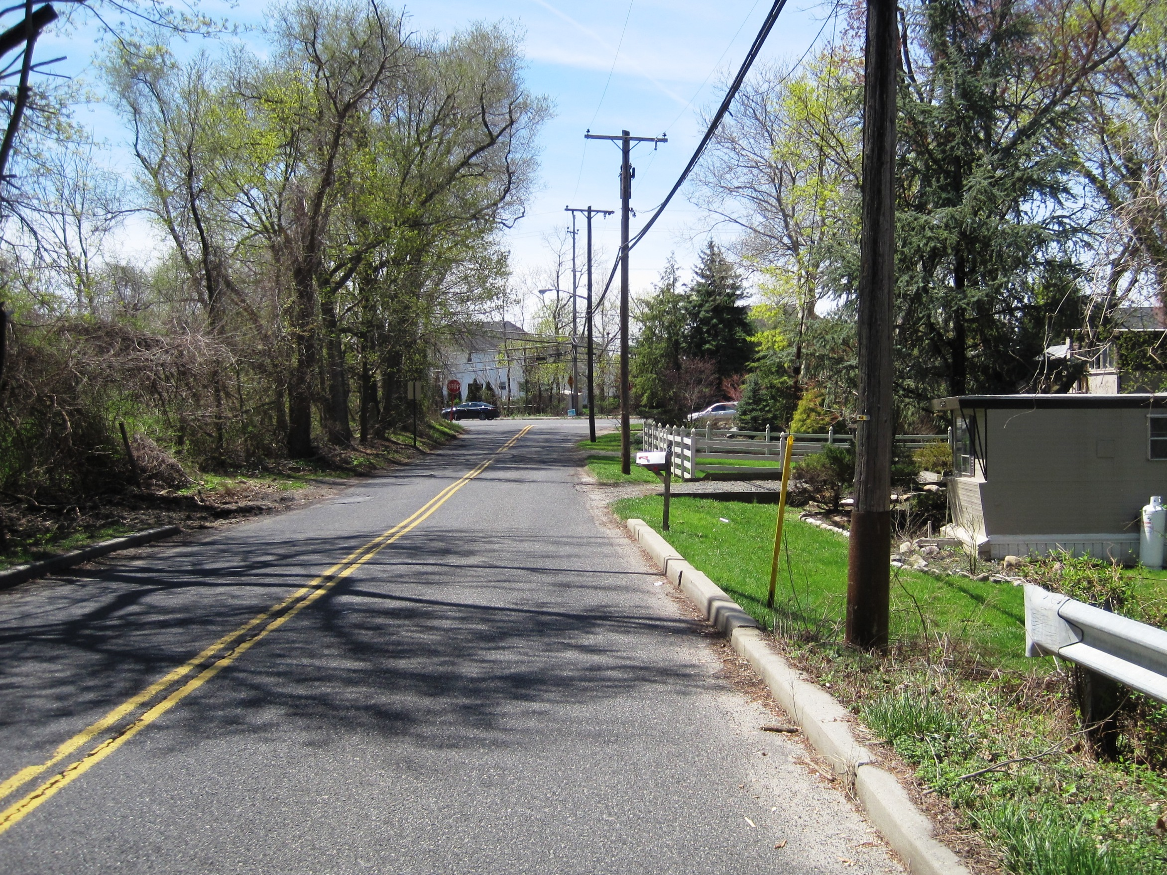 Photo of Wickatunk, New Jersey, an unincorporated community within Marlboro Township. Photo taken on Pleasant Valley Road approaching Route 79.